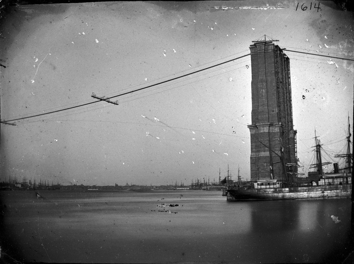 George Bradford Brainerd (American, 1845-1887). Construction of Brooklyn Bridge, ca. 1872-1887. Glass plate negative, 3 1/4 x 4 1/4 in. (8.3 x 10.8 cm). Prints, Drawings and Photographs. Brooklyn Museum/Brooklyn Public Library, Brooklyn Collection, 1996.164.2-1614. (1996.164.2-1614_glass_bw_SL1.jpg) Thank you, aur2899! This image has been geotagged by aur2899 so Brooklyn could be part of the Historypin launch on July 11, 2011. Want to help? See if you can place any of these images on a map! More about #mapBK